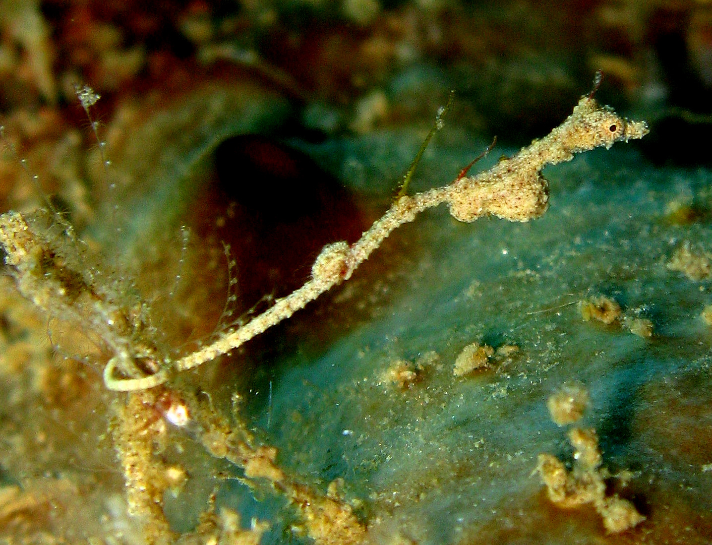 Lembeh SeaDragon - Kyonemichthys Rumengani